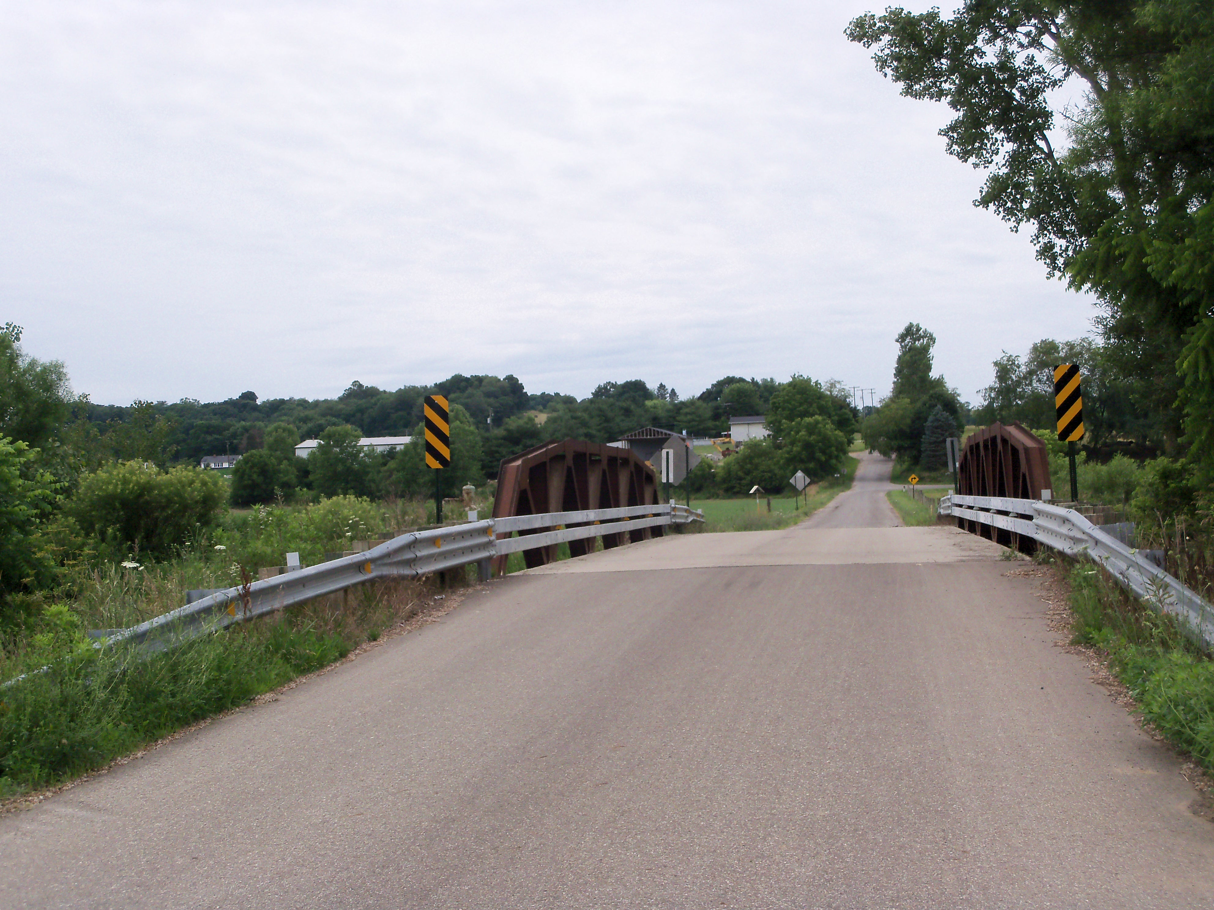 Pony Truss bridge on Snively Road over Jelloway Creek in Knox County, Ohio